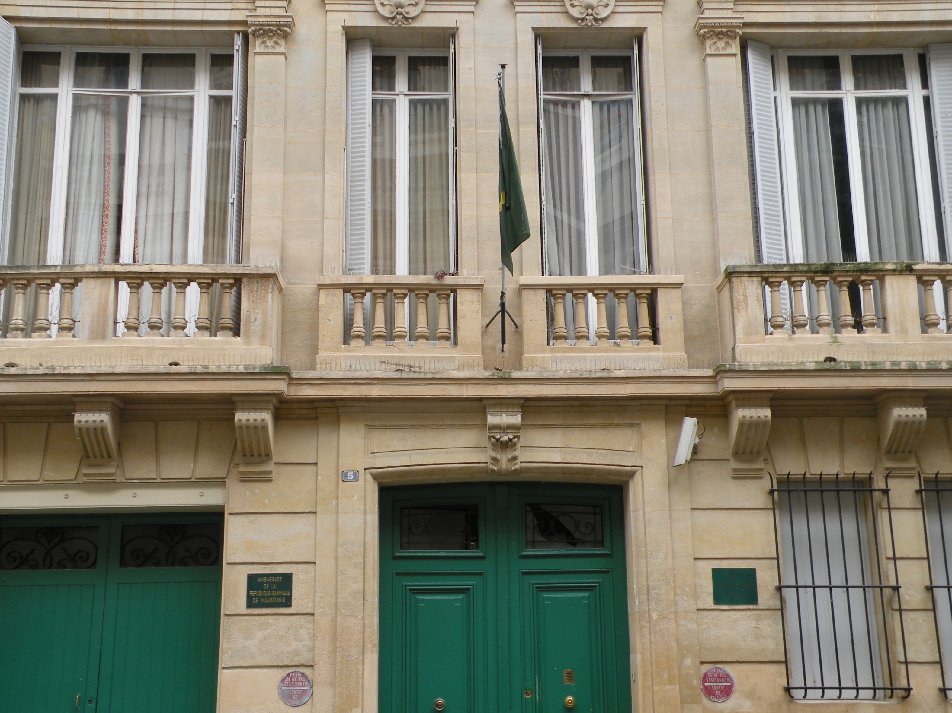 Mauritanian embassy in France, Paris.